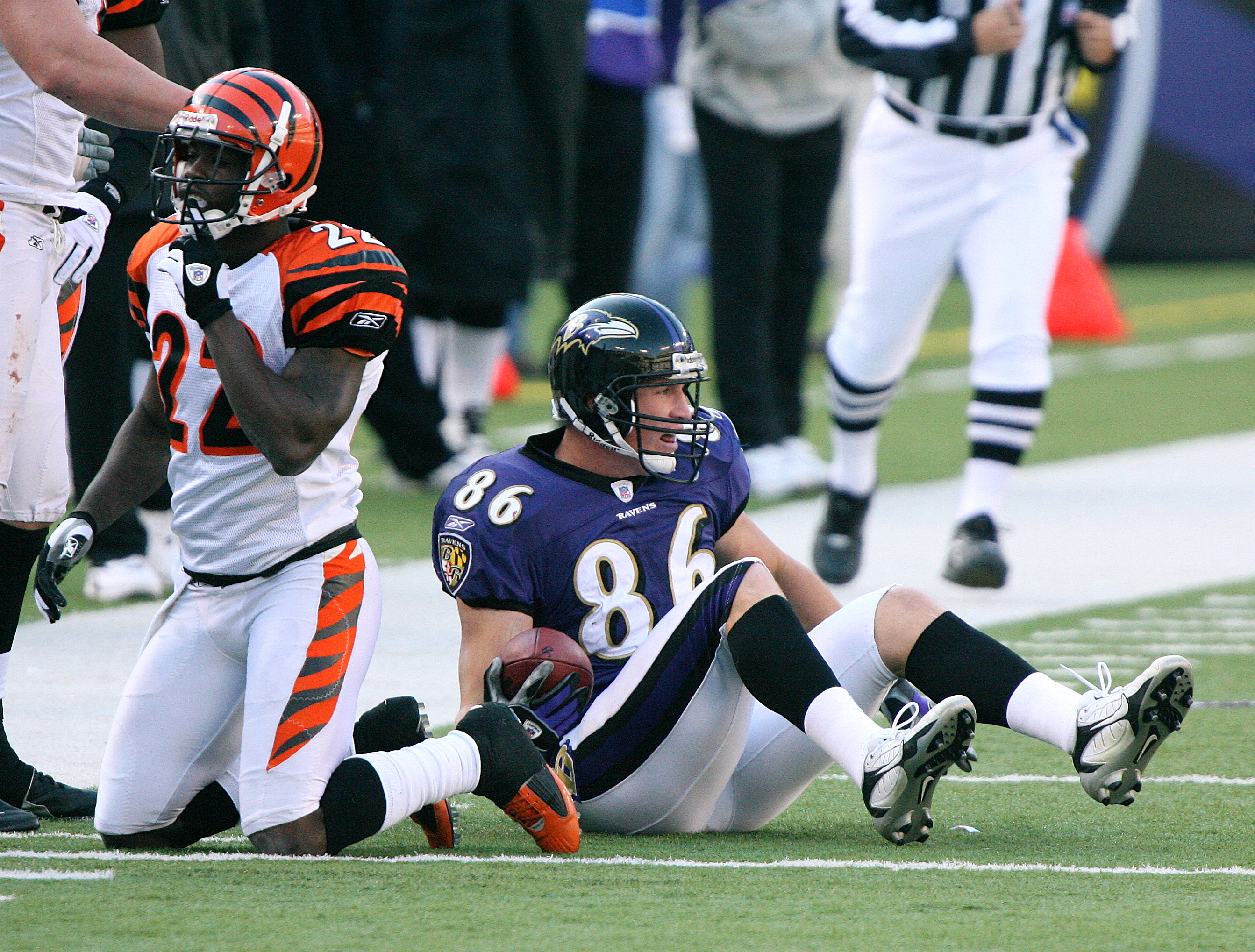 Johnathan Joseph (left) and Todd Heap (right)